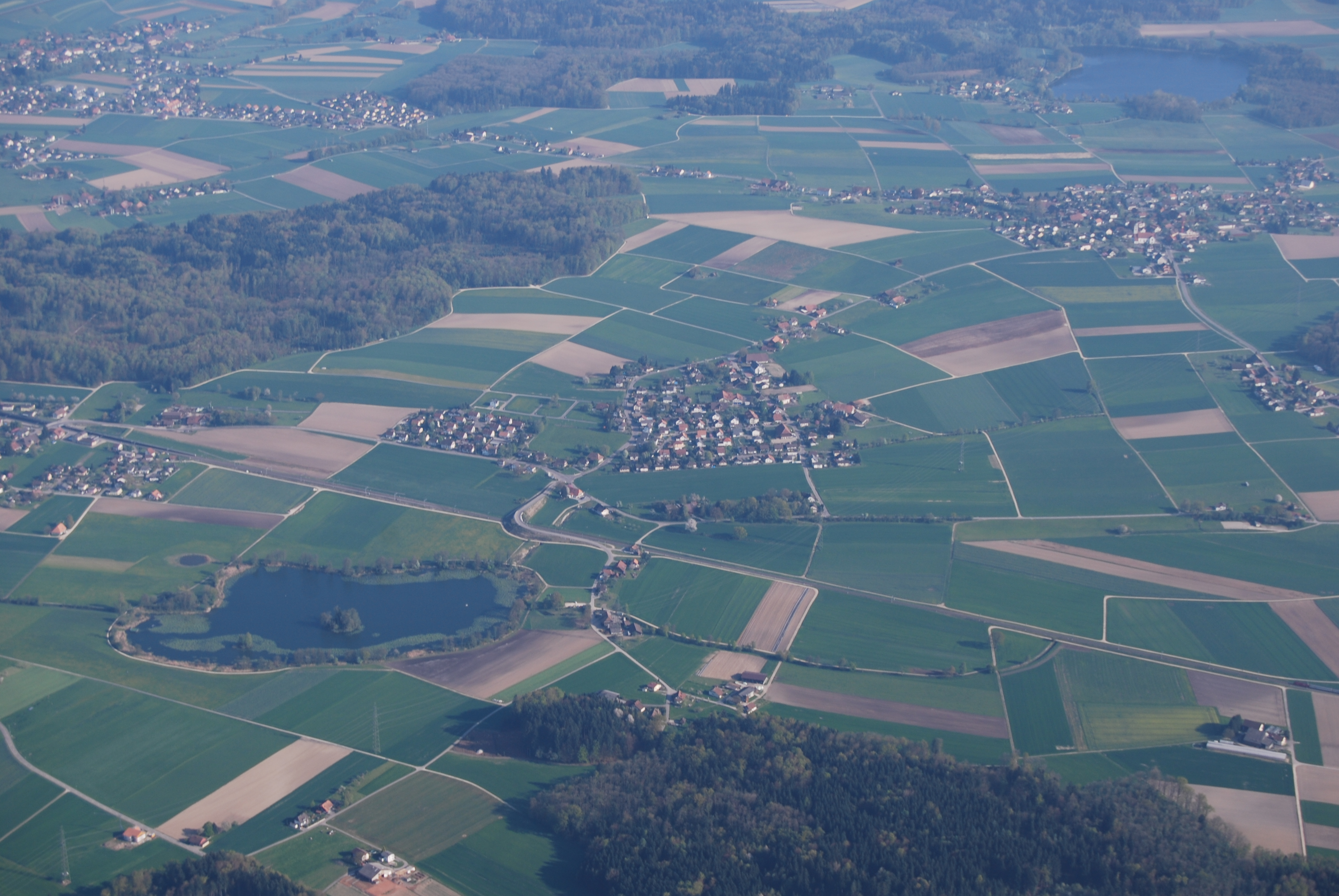 Lake Burgaeschi and Lake Inkwil (left side on the bottom), Aeschi and Bolken (canton of Solothurn), as well as Inkwil (Canton Berne), Switzerland